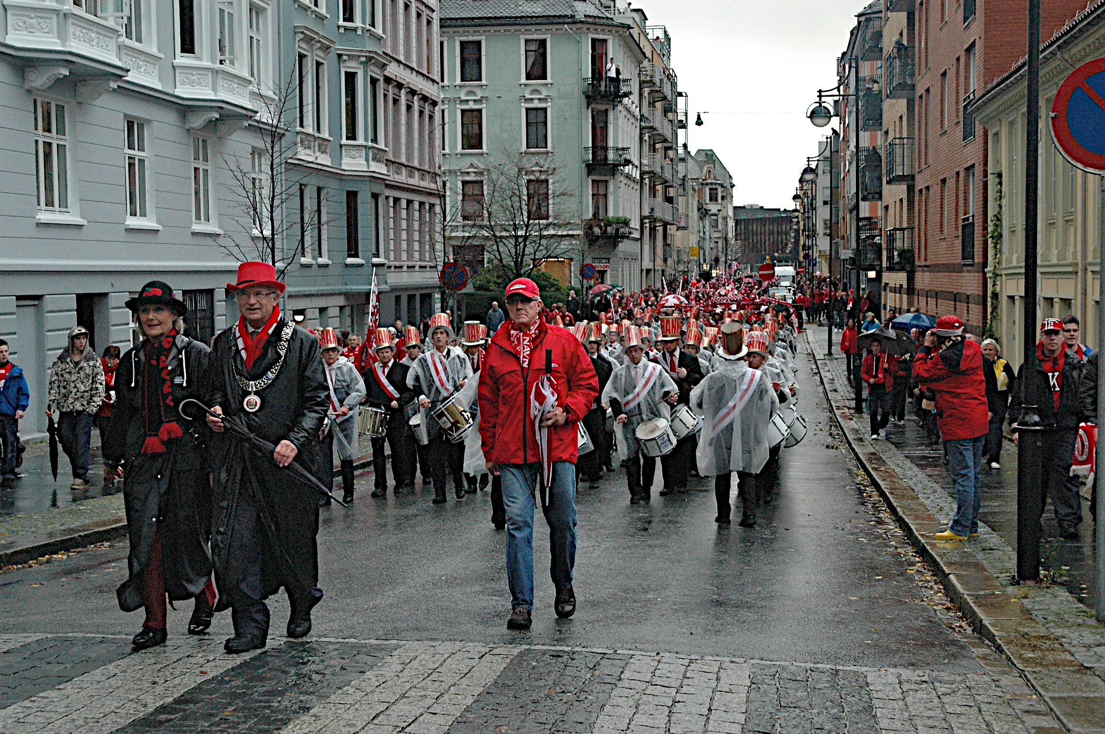 Gullmarsj for Brann 2007